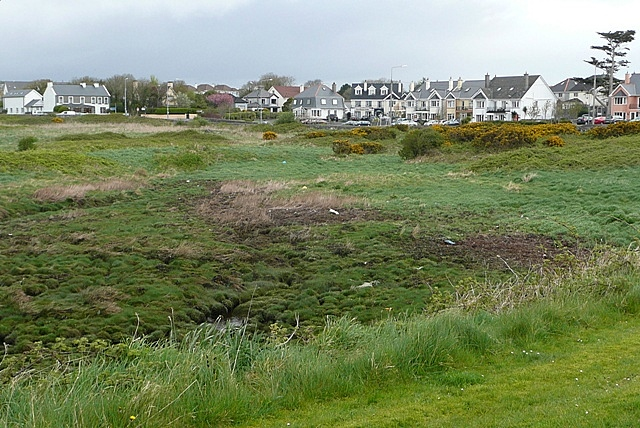 Cnoc na Cathrach (Knocknacarragh). This is a distant view of a whole row of Bed and Breakfast houses here 1252335 overlooking a bay west of Galway City.